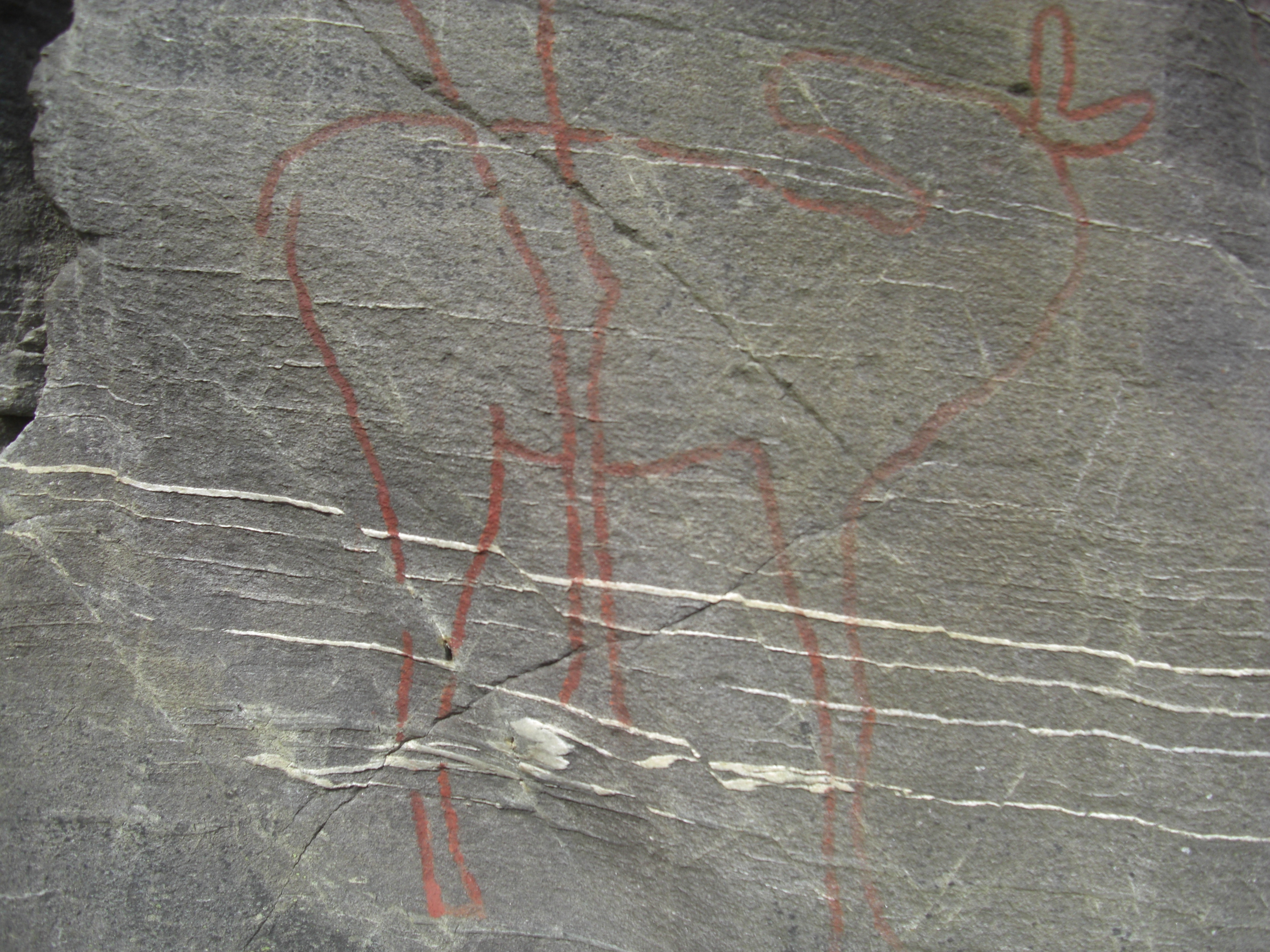 Rock carving at Stykket, Rissa